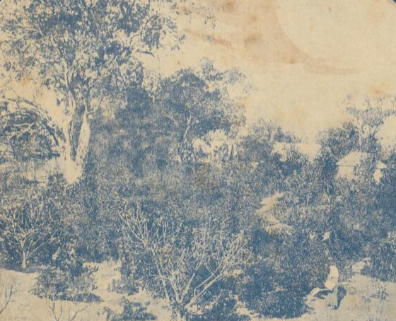 Photograph of Wirra Warra Station, Brewarrina, New South Wales (Circa 1919) from the cover artwork of 'Wirra Warra Schottishe" music named after the childhood home of Albert Bokhara Saunders (1880-1946) on the Bokhara Creek.